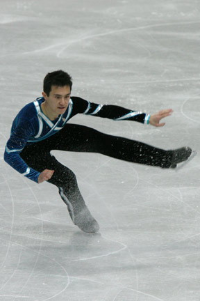 2008 World Figure Skating Championships - Patrick Chan